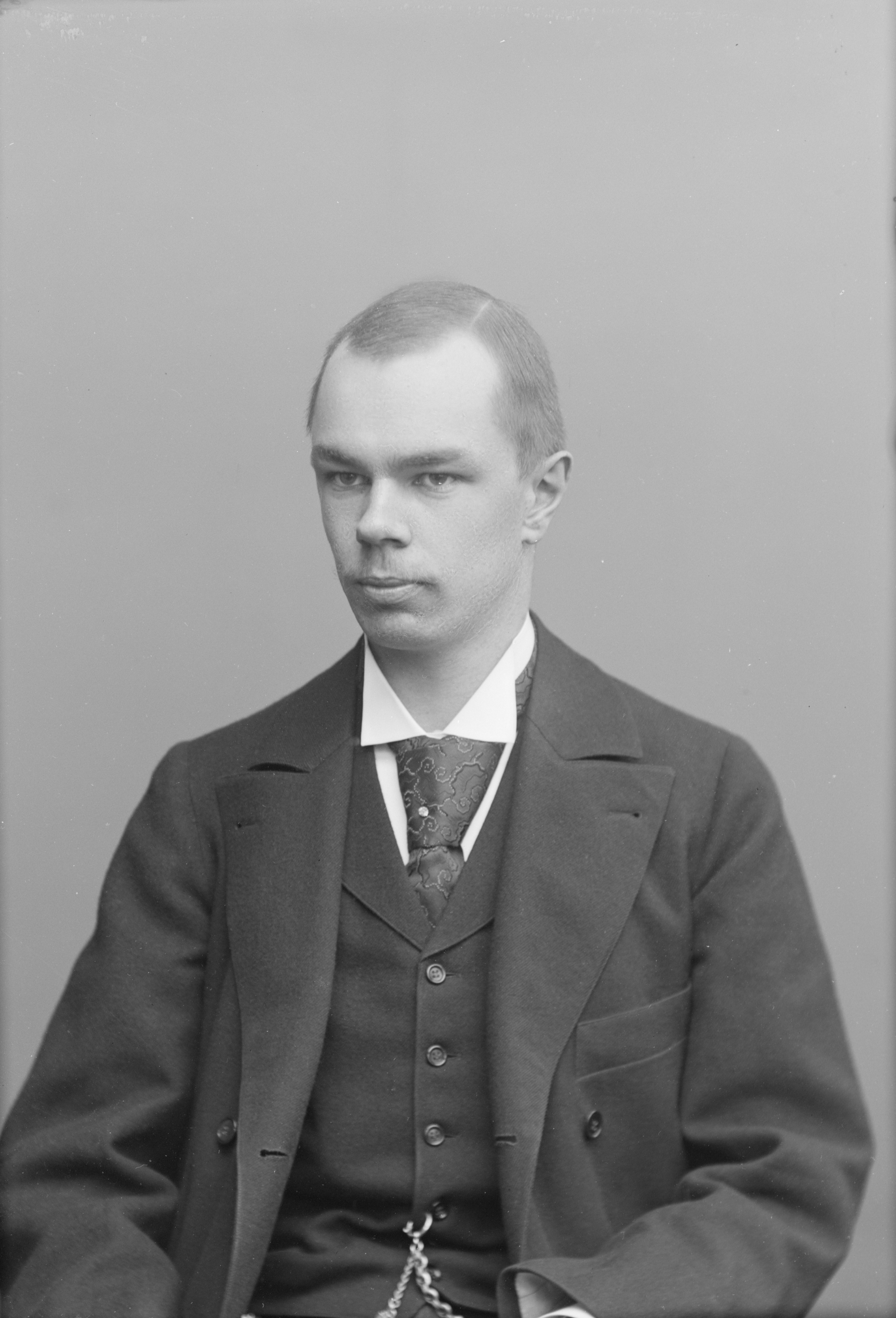 Photograph of the Finnish–Swedish writer Rolf Nordenstreng (1878–1964).